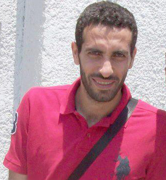 Mohamed Aboutrika